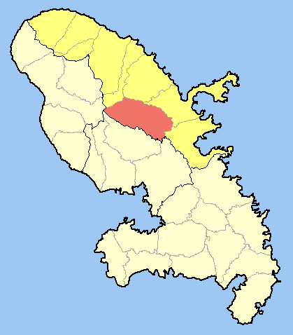 Location of Gros-Morne within Martinique